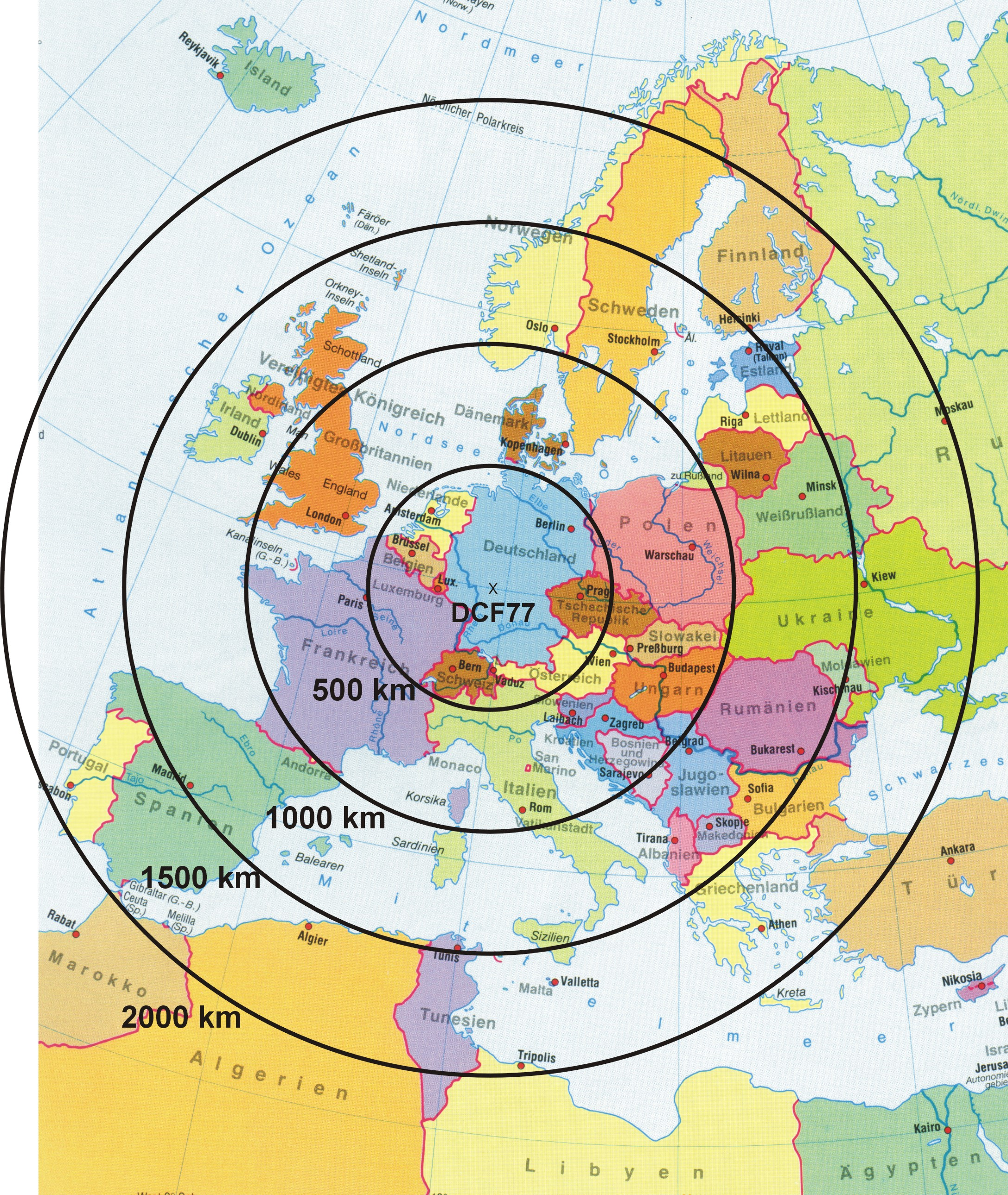 DCF77 range